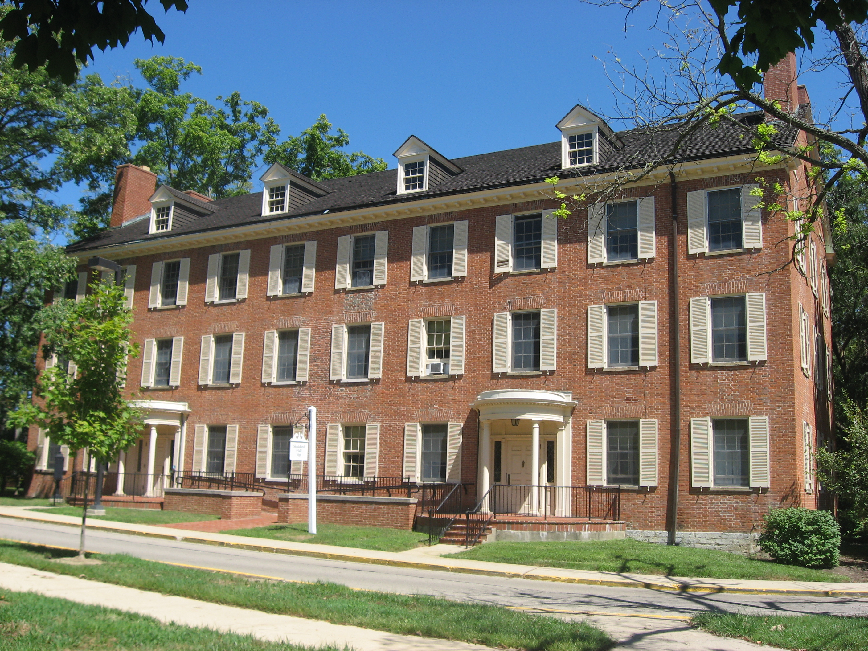 Front of Stoddard Hall, located along Irvin Drive on the campus of Miami University in Oxford, Ohio, United States. Built in 1835, it and the adjacent Elliott Hall are listed together on the National Register of Historic Places.